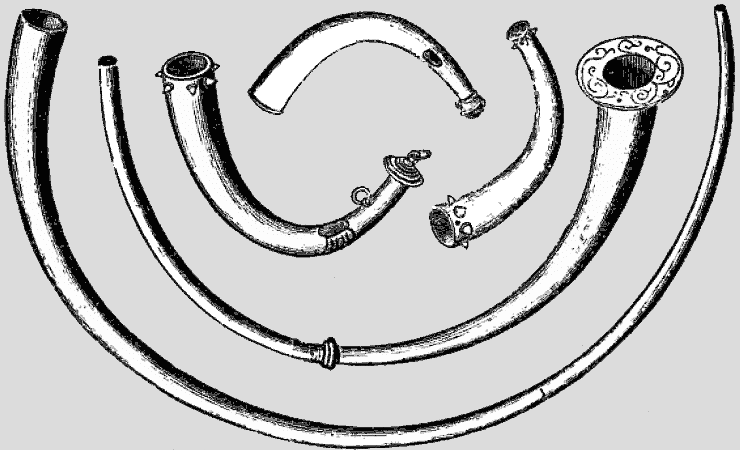 Bronze horns in the collection of the Irish Museum. The largest horn in this image is 7 1/2 feet in length. The second largest horn is 6 feet and includes a decorative plate on the end of the bell.